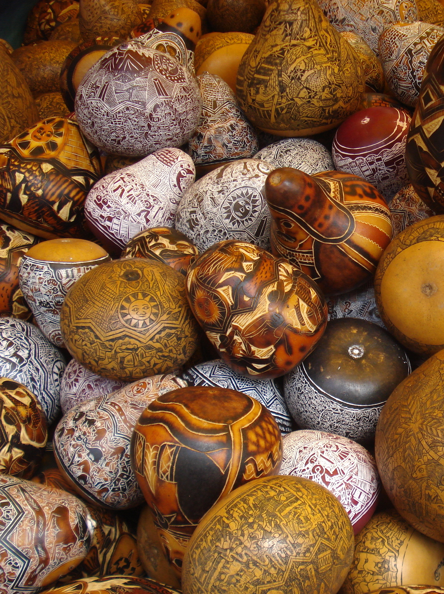 Típica artesanía peruana. Una forma de arte que se remonta a miles de años atrás, aún vigente. Pisaq, Perú. Gourd carving, an ancient andean art form dating back thousands of years, is still practiced today. Pisaq, Peru.